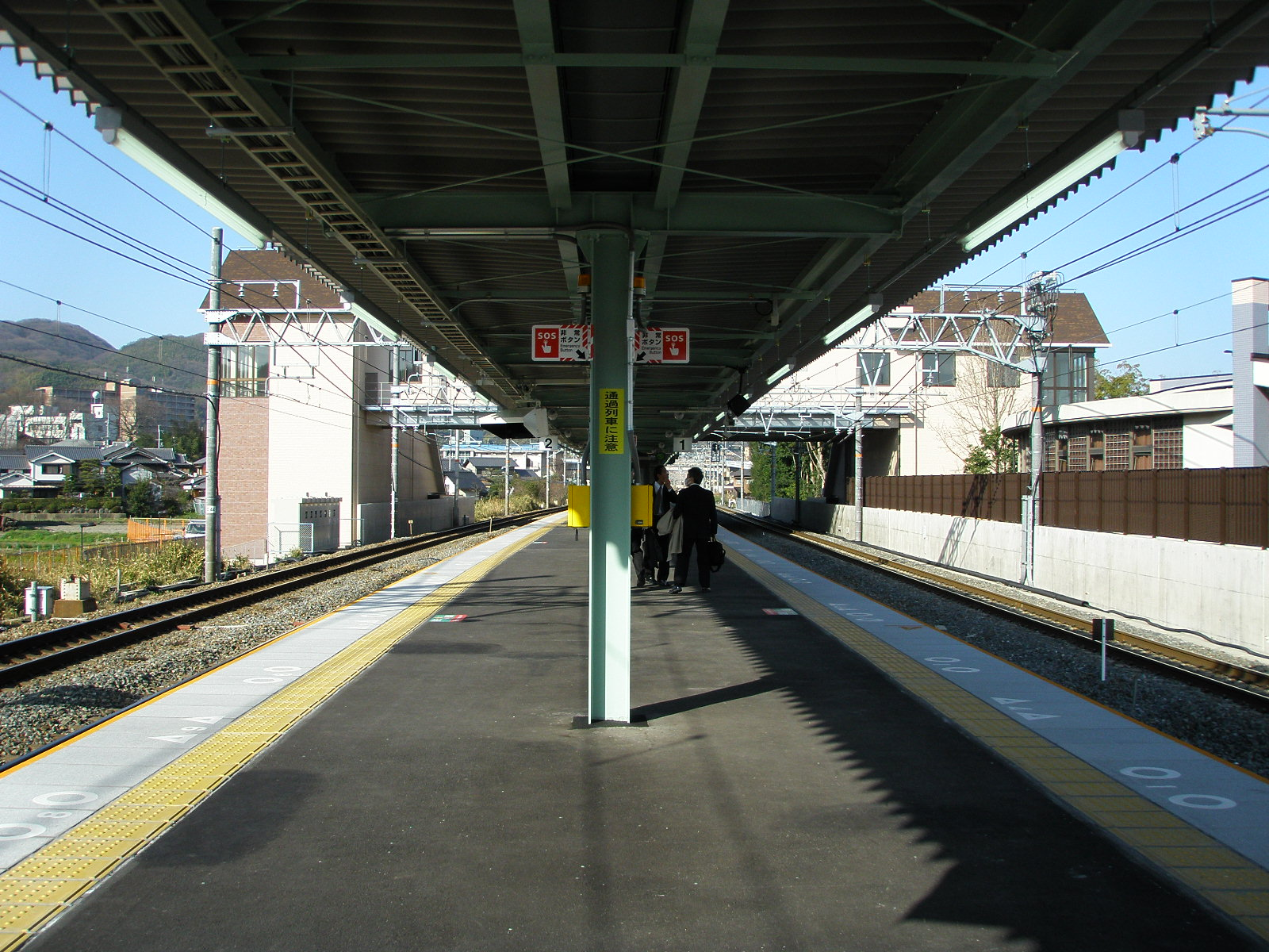 West Japan Railway Tōkaidō Main Line（JR Kyōto Line） Shimamoto Station Platform